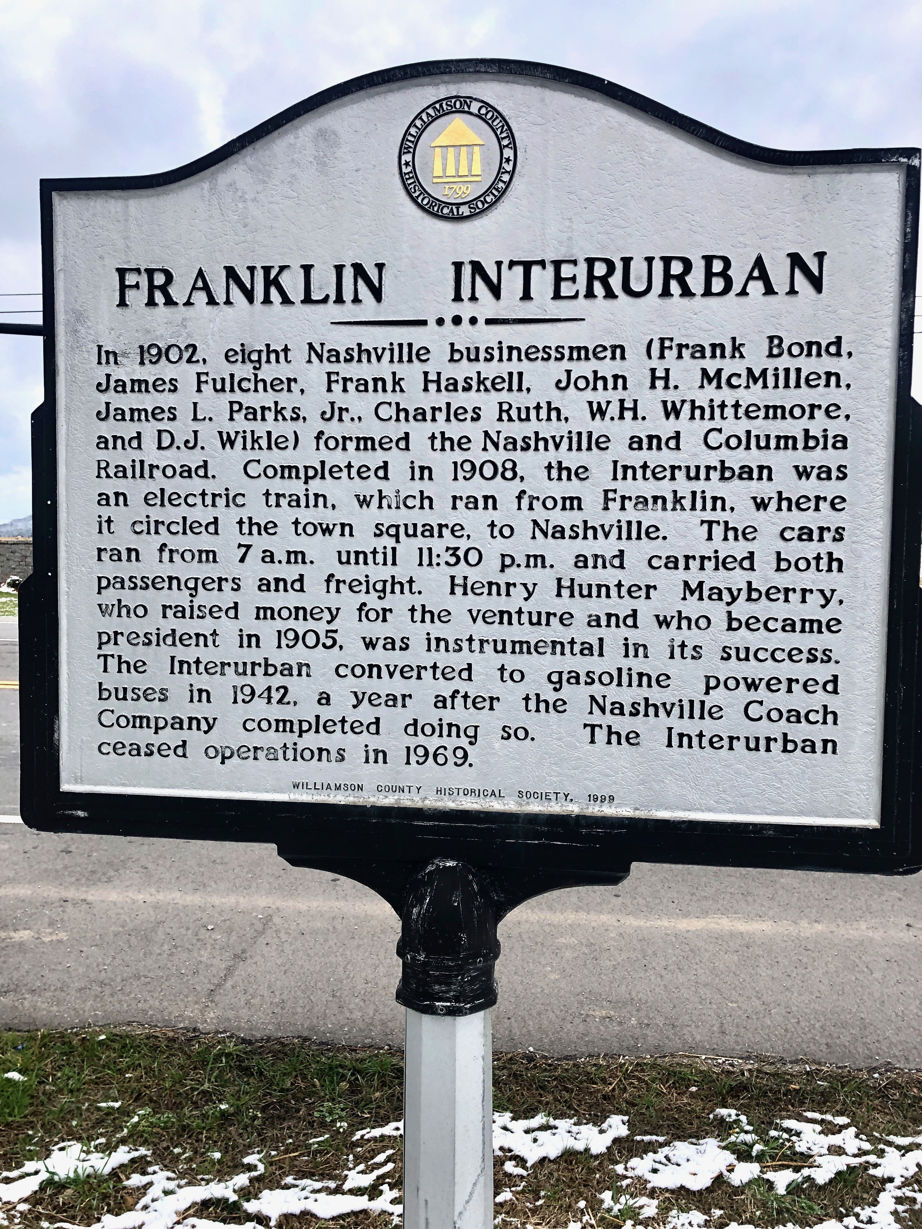 Tennessee Historical Maker "Franklin Interurban", 2020